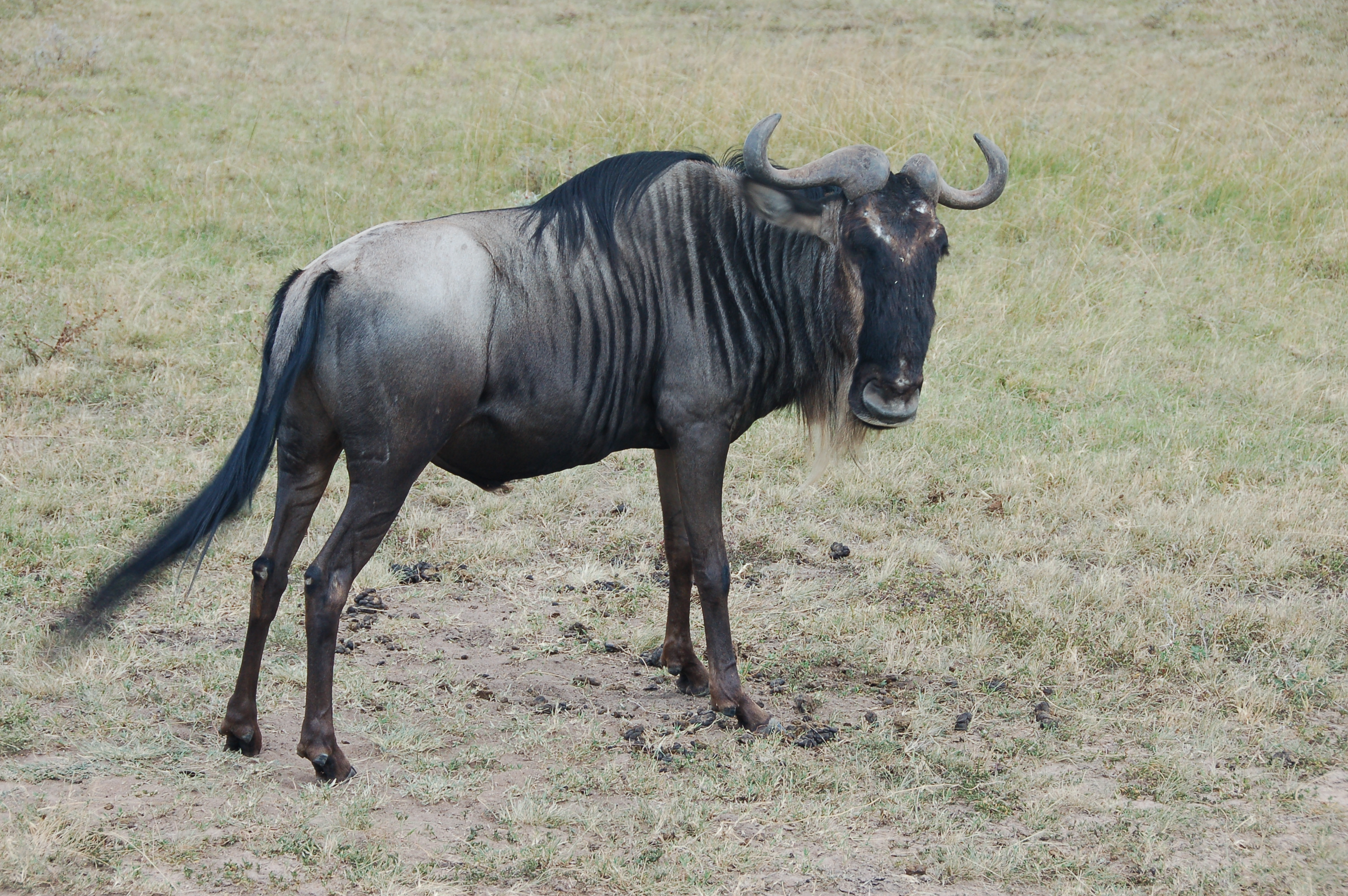 Prior to the mass migration, a few of the Wildebeest tramp through Masai Mara NP. In late July - early August, hundreds of thousands of these animals migrate from the Serengeti of Tanzania across the border to the Masai Mara for the season.